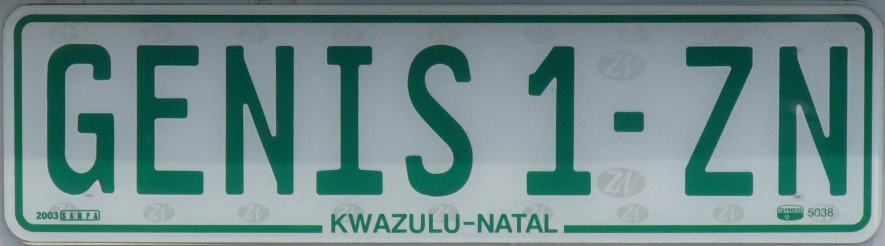 South African number plate for province Zulu-Natal